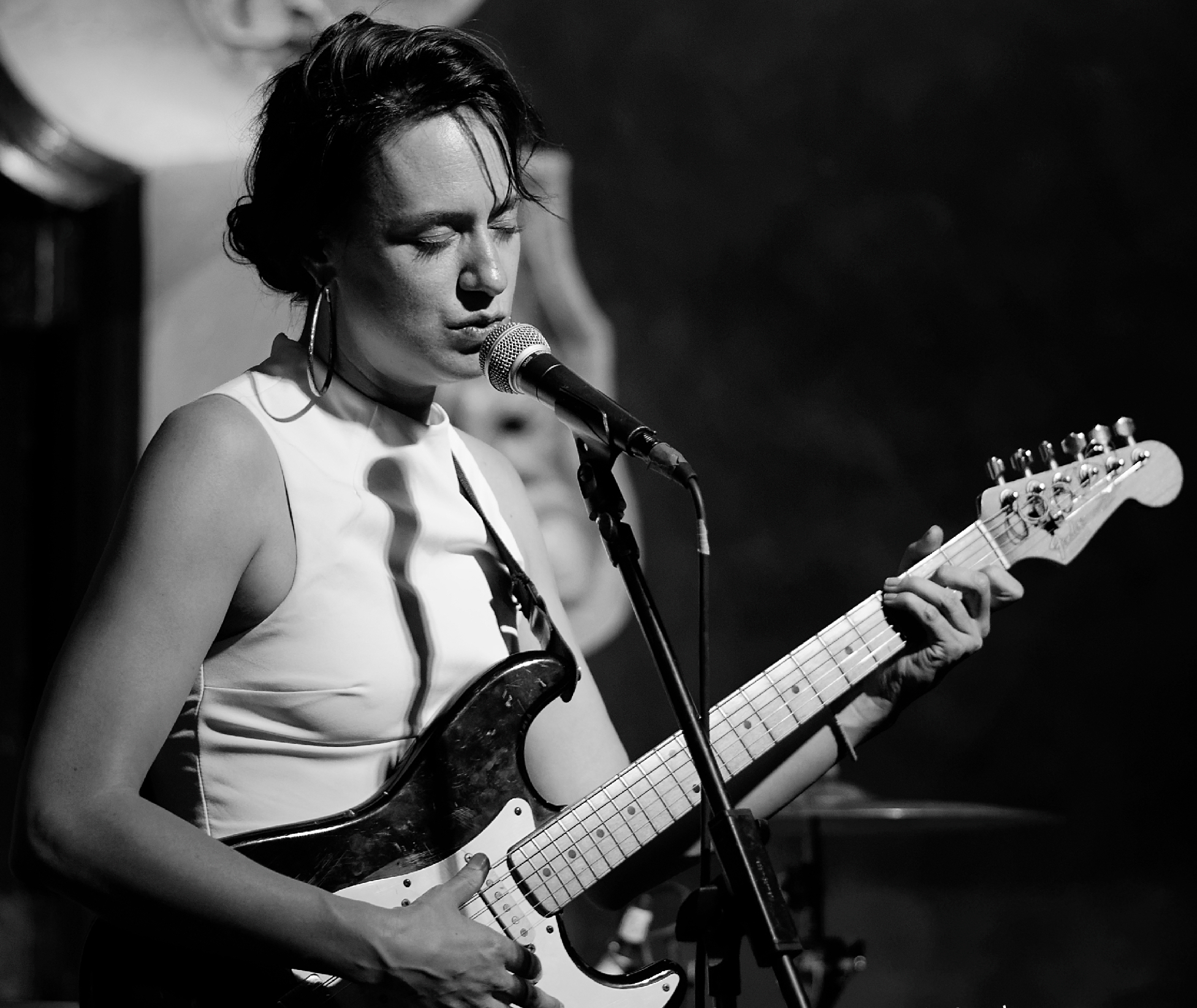 Arum Rae performing live at "It's a School Night" at Bardot Hollywood in Los Angeles California on Monday August 15th, 2016.